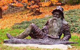 Life size bronze of Rip Van Winkle sculpted by Richard Masloski, copyright 2000. Located between the Town Hall and the Main Street School.